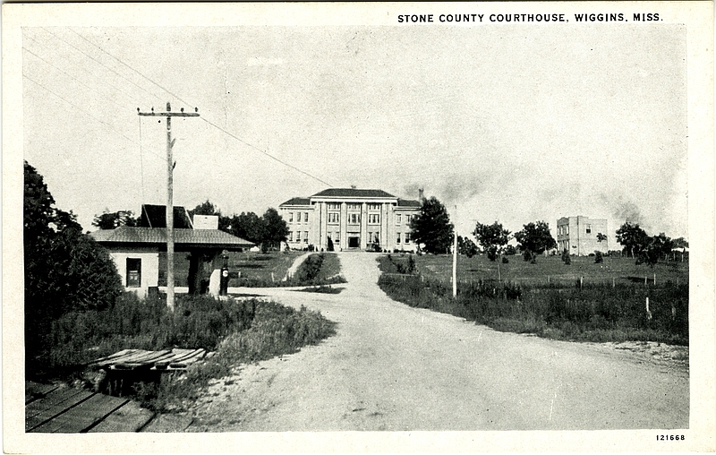 Stone County Courthouse, Cavers Avenue, Wiggins, Mississippi, USA